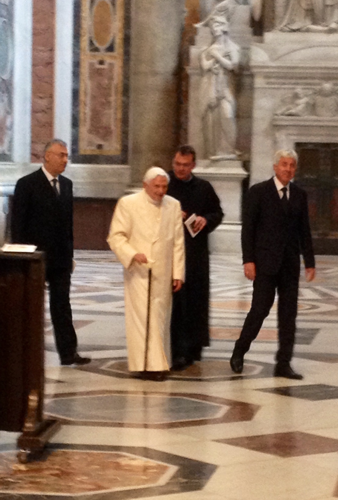 Pope emeritus Benedict XVI at Ordinary Public Consistory - February 22, 2014